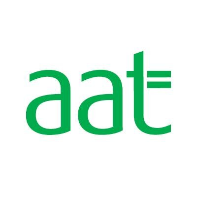 Association of Accounting Technicians